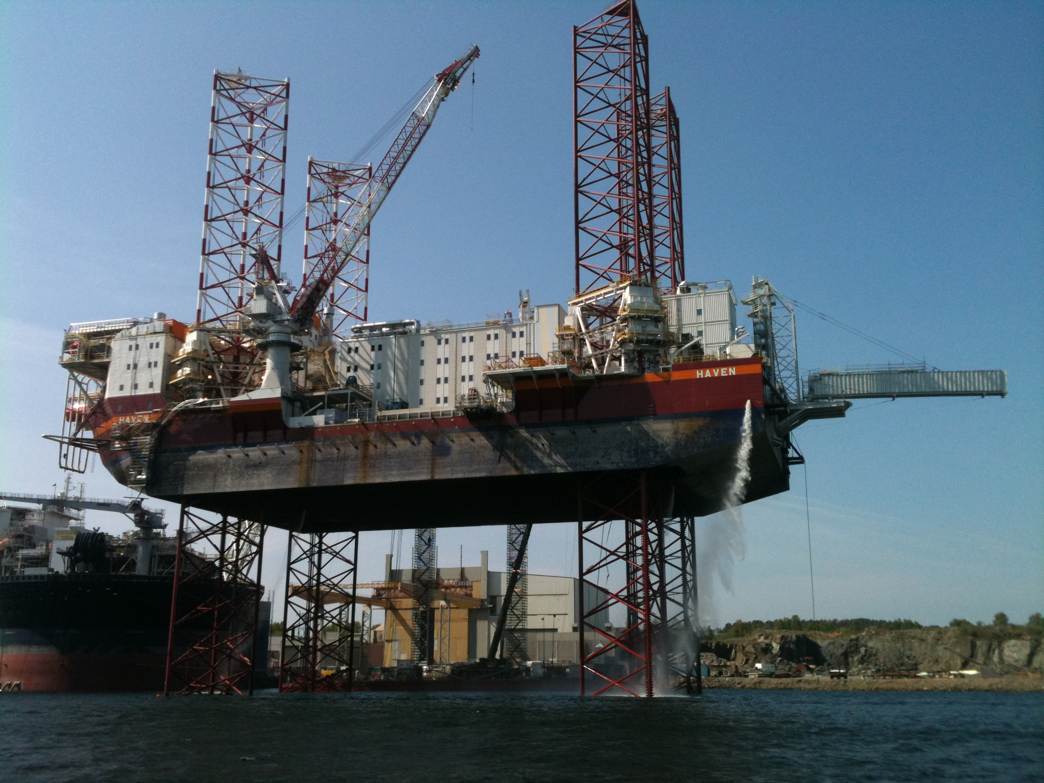 A accommodation platform for 290 persons: Master Marine’s vessel Service Jack 1 “Haven”. “Haven” will serve as accommodation platform in the Norwegian sector of the North Sea. Photagraphed at the yard in Eydehavn, Arendal, Norway 7 May 2011